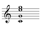 C Major Triad in open root position doubling 5th.